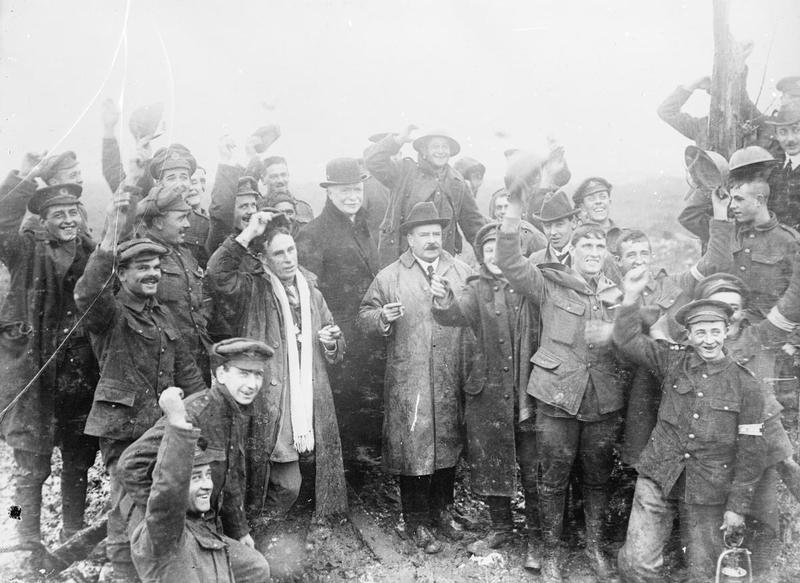 IWM caption : "British troops cheering Mr. Massey and Sir Joseph Ward; La Boisselle, 23rd October 1916"